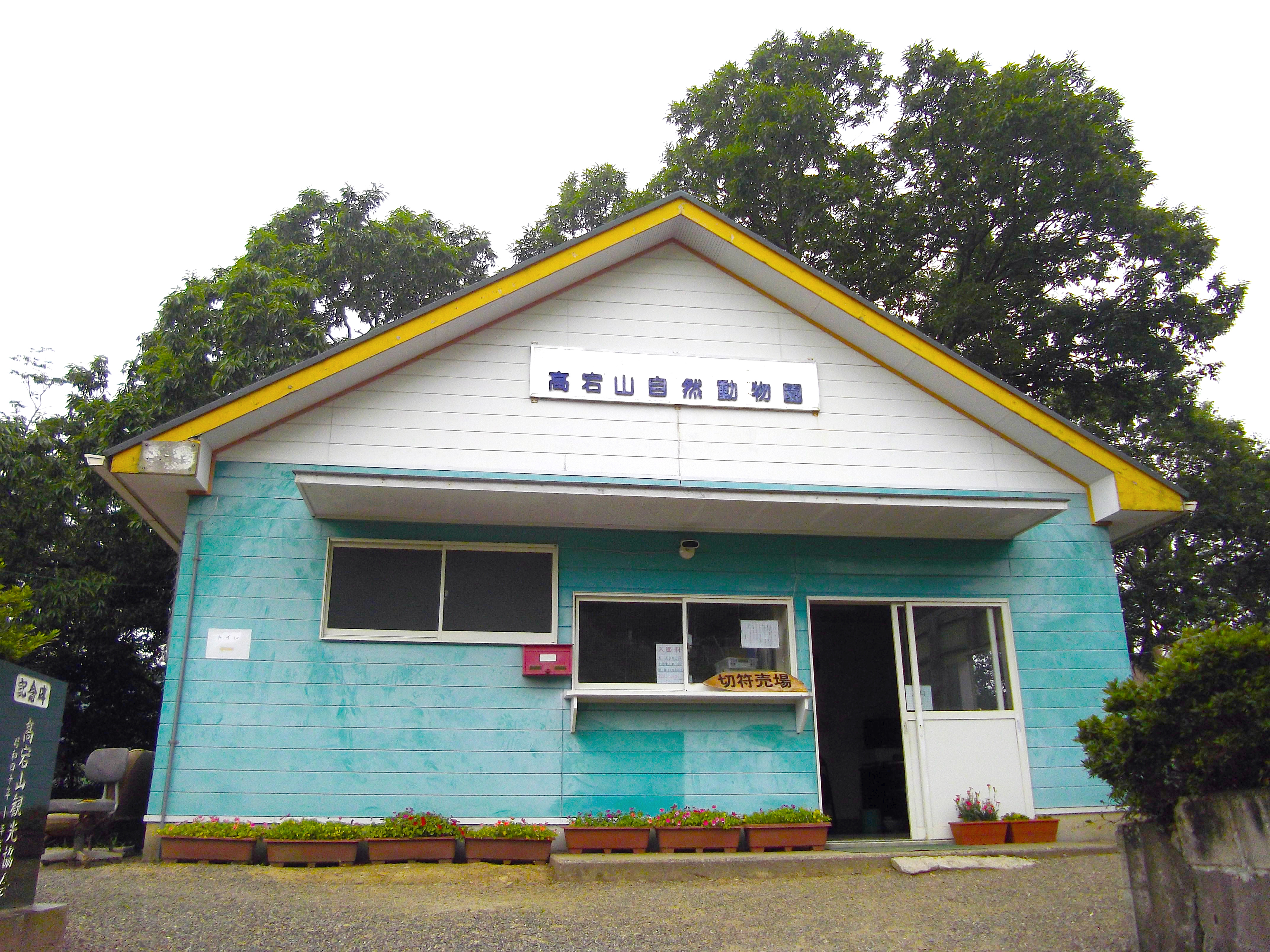 Takagoyama Natural Zoo in Futtsu city, Chiba prefecture.